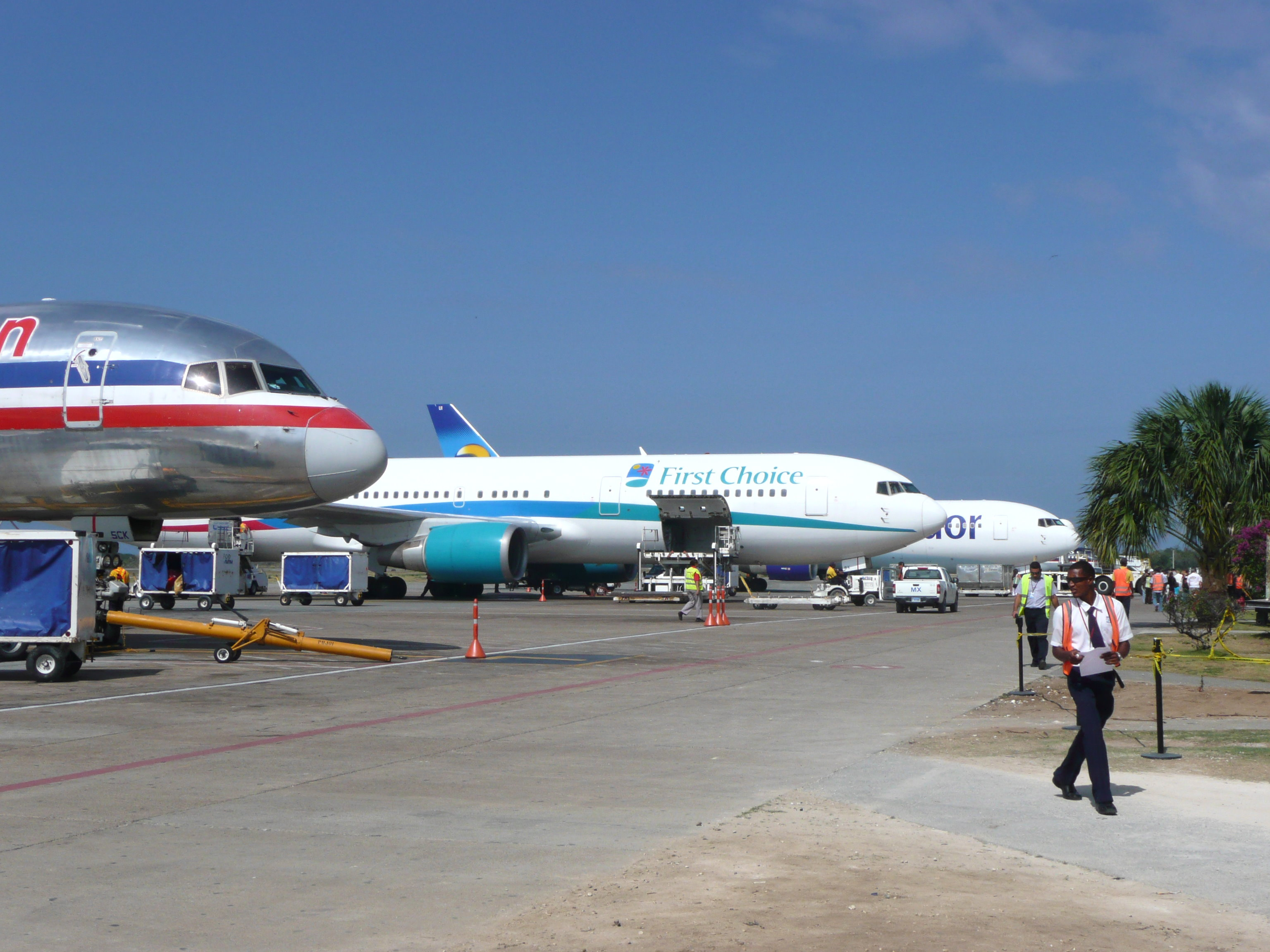 View of aircraft parked at several gates adjacent to Terminal One at Punta Cana International Airport, Dominican Republic.